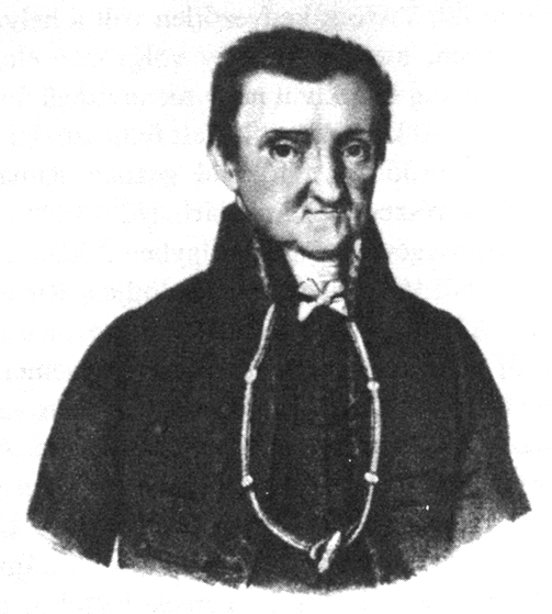 Márton Sturman (1757–1844) iron industrialist